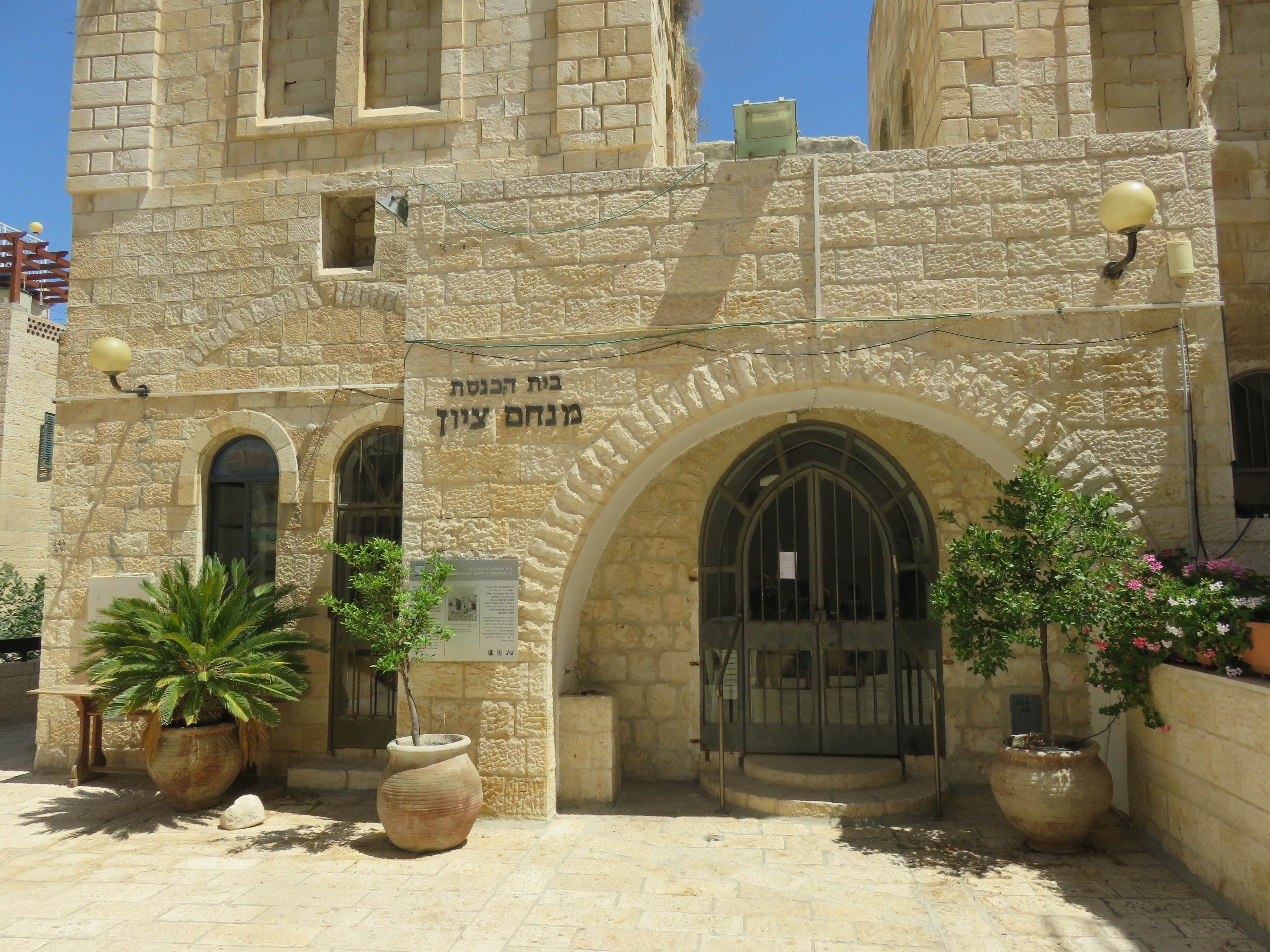 Menachem Zion Synagogue, Jewish Quarter, Jerusalem